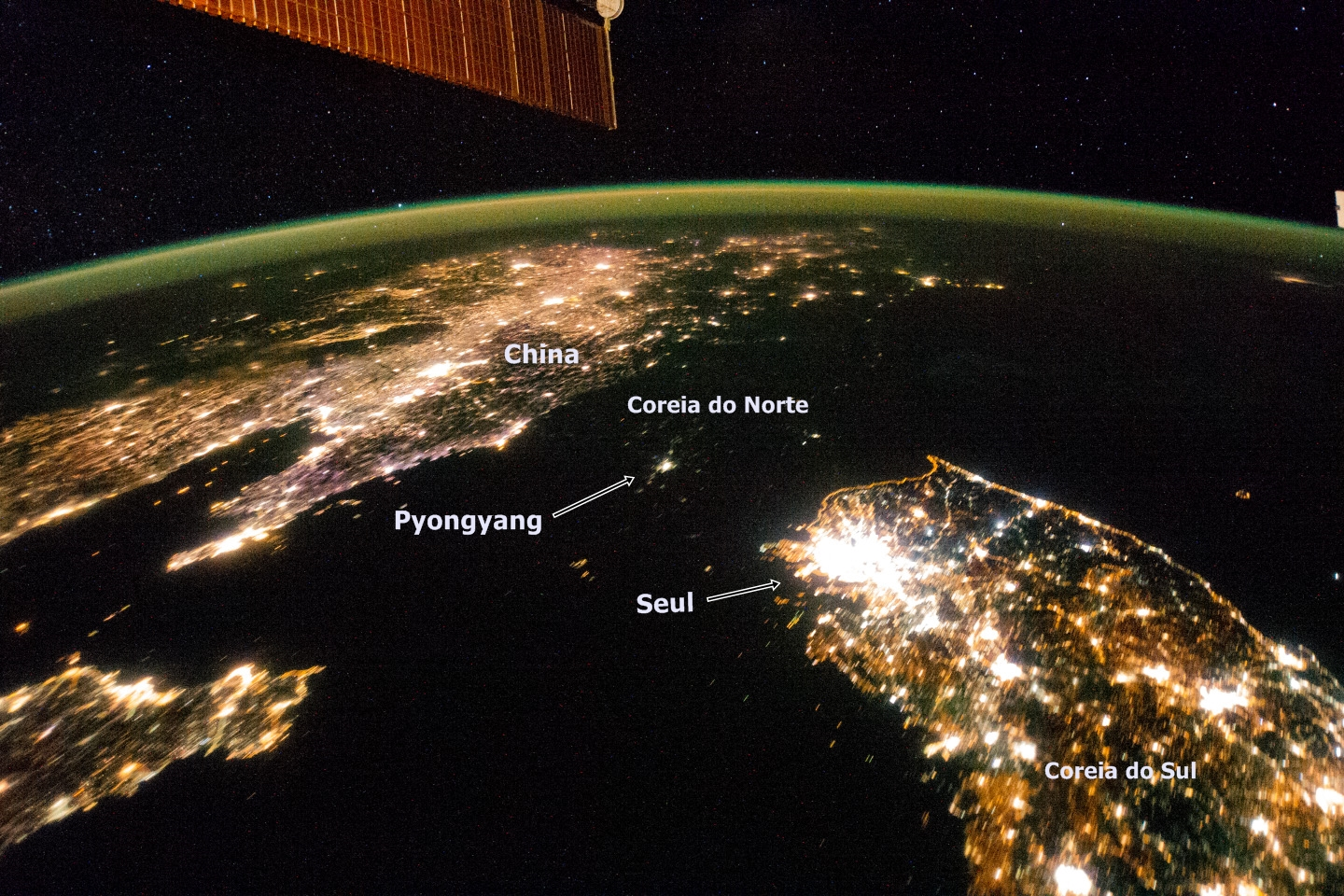 The Koreas at Night